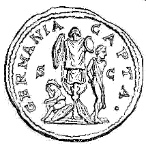 738 woodcuts illustrating the work A Dictionary of Roman Coins, Republican and Imperial (1889). To identify a coin please look at the filename to identify a page number, and check the Dictionary on numiswiki